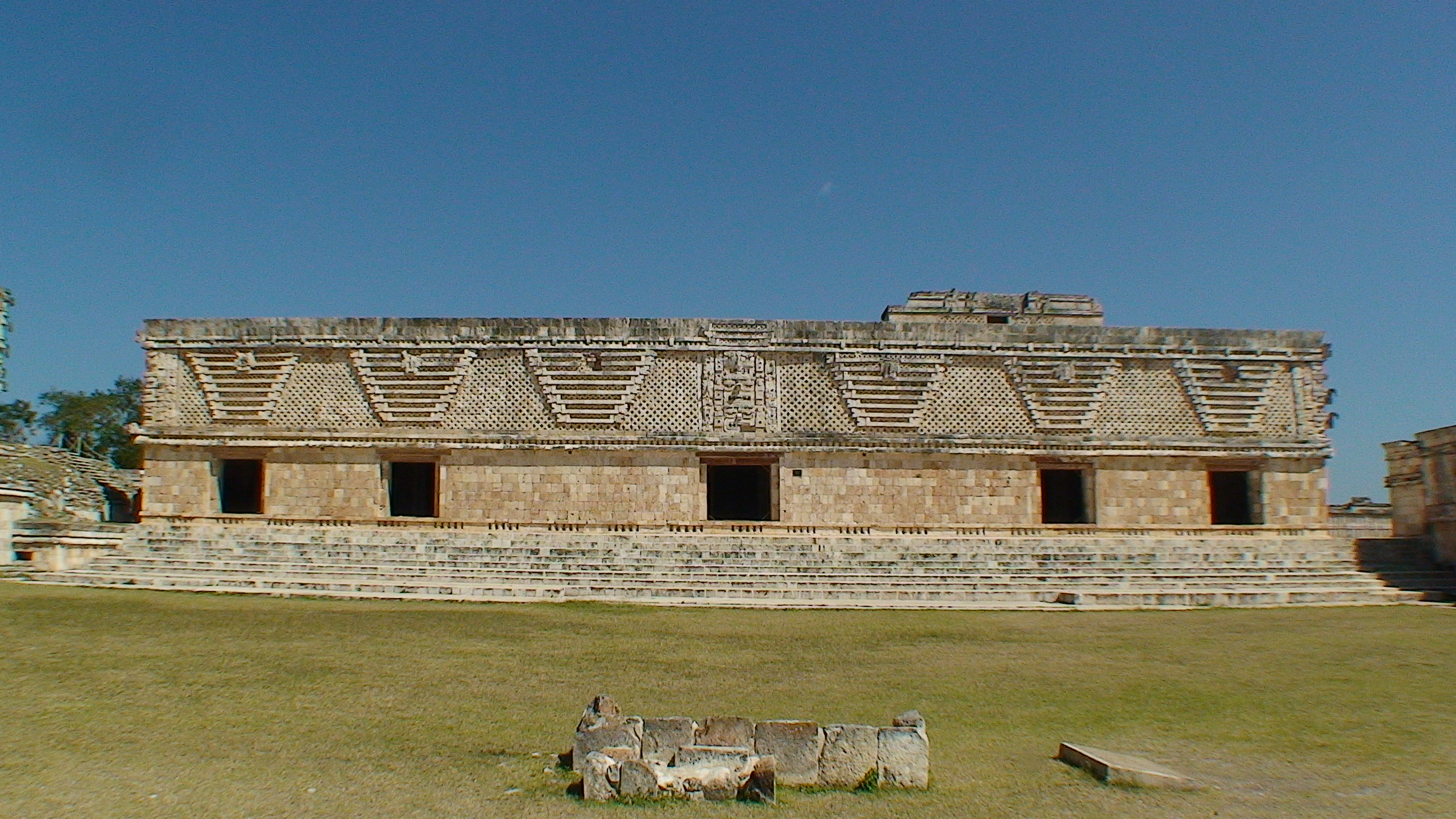 Uxmal, Yucatan, Mexico: East building of the Monjas cuadrangre